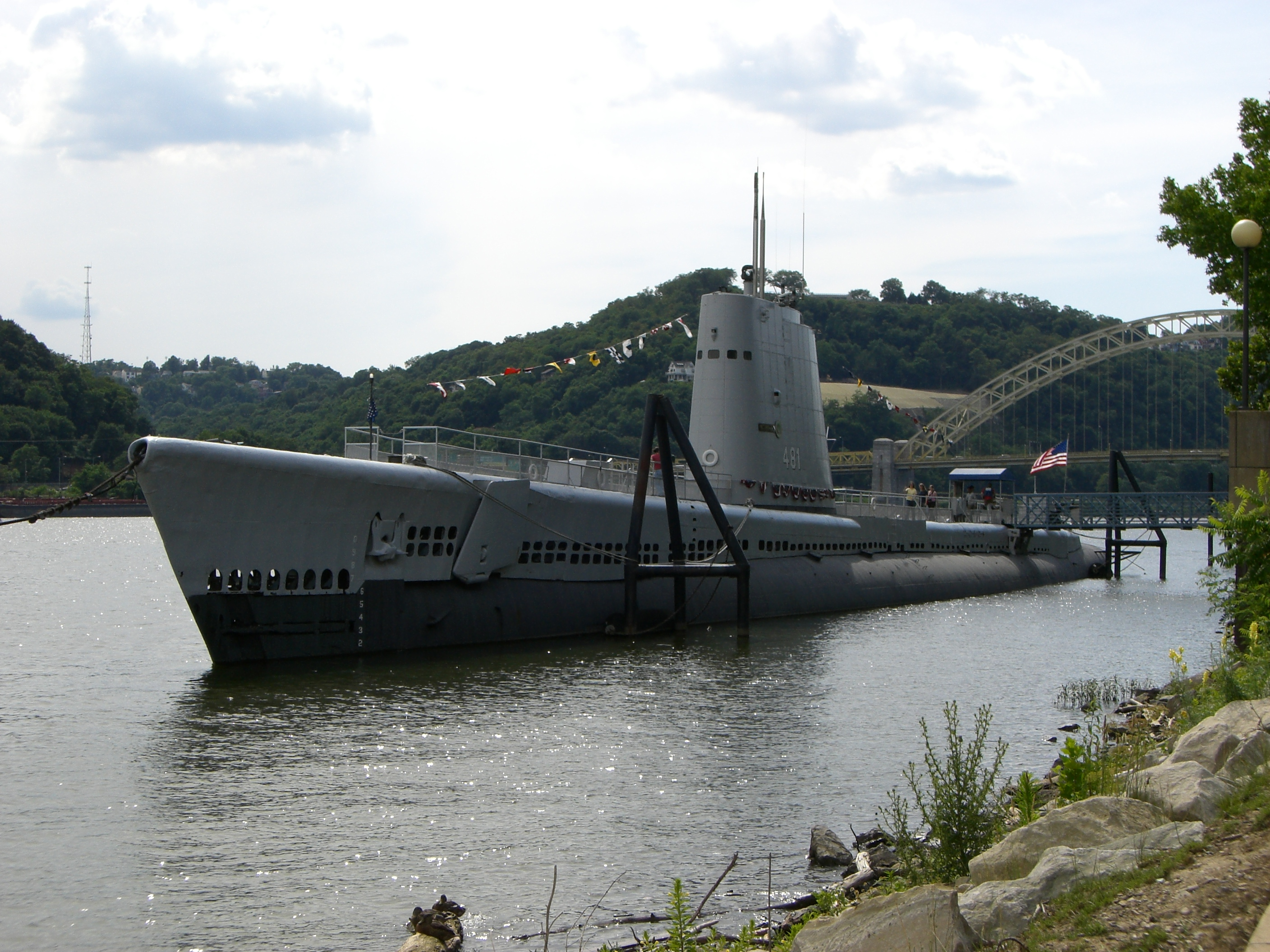 The USS Requin SS-481, seen here as a museum ship in the Ohio River, in Pittsburgh, Pennsylvania. The Requin is maintained and displayed at the Carnegie Science center.